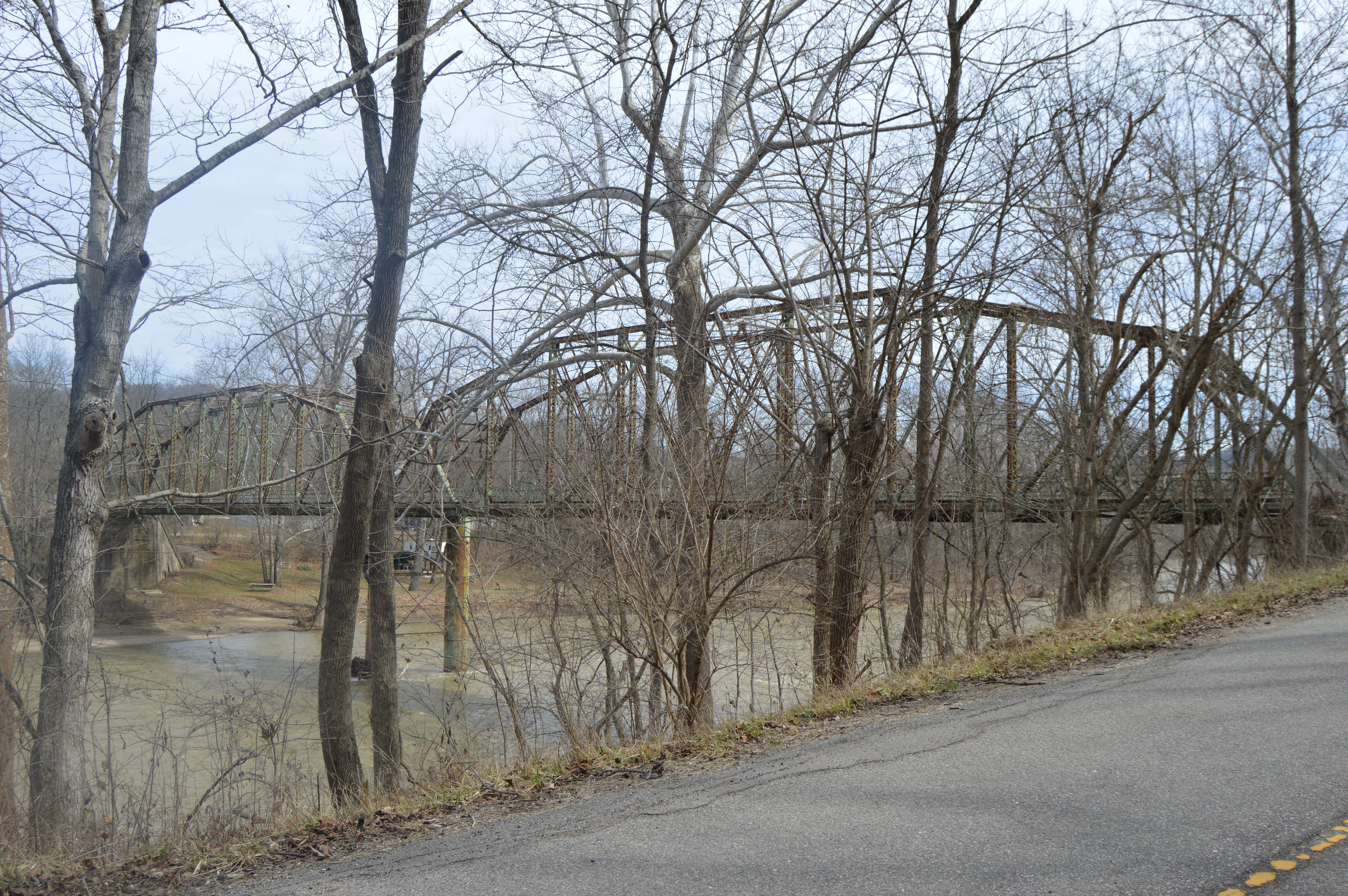 Western (upstream) side of the Cedar Grove Bridge, which before its closure carried State Road 1 over the Whitewater River at Cedar Grove, Indiana, United States. Built in 1914, it is listed on the National Register of Historic Places.